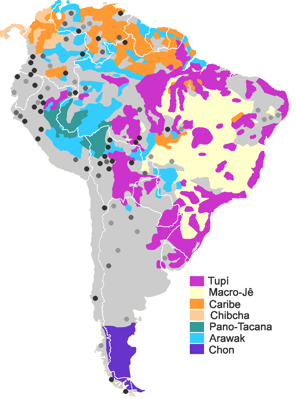 Extenisve linguistic families of South America (more than 5 languages), small familes (dark grey), isolates (black) and doubful/unclassified languages (clear grey).